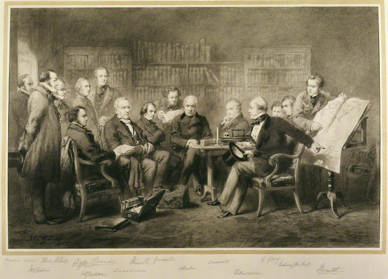 Coalition Government 1852–1855: George Hamilton Gordon, 4th Earl of Aberdeen (1784-1860), George Campbell, 8th Duke of Argyll (1823-1900), George Villiers, 4th Earl of Clarendon (1800-1870), Robert Rolfe, 1st Baron Cranworth (1790-1868), William Gladstone (1809-1898), Sir James Graham, 2nd Baronet (1792-1861), Granville Leveson-Gower, 2nd Earl Granville (1815-1891), Sir George Grey, 2nd Baronet (1799-1882), Charles Wood, 1st Viscount Halifax (1800-1885), Sidney Herbert, 1st Baron Herbert of Lea (1810-1861), Henry Petty-Fitzmaurice, 3rd Marquess of Lansdowne (1780-1863), Sir William Molesworth, 8th Baronet (1810-1855), Henry Pelham-Clinton, 5th Duke of Newcastle (1811-1864), Henry John Temple, 3rd Viscount Palmerston (1784-1865), John Russell, 1st Earl Russell (1792-1878)